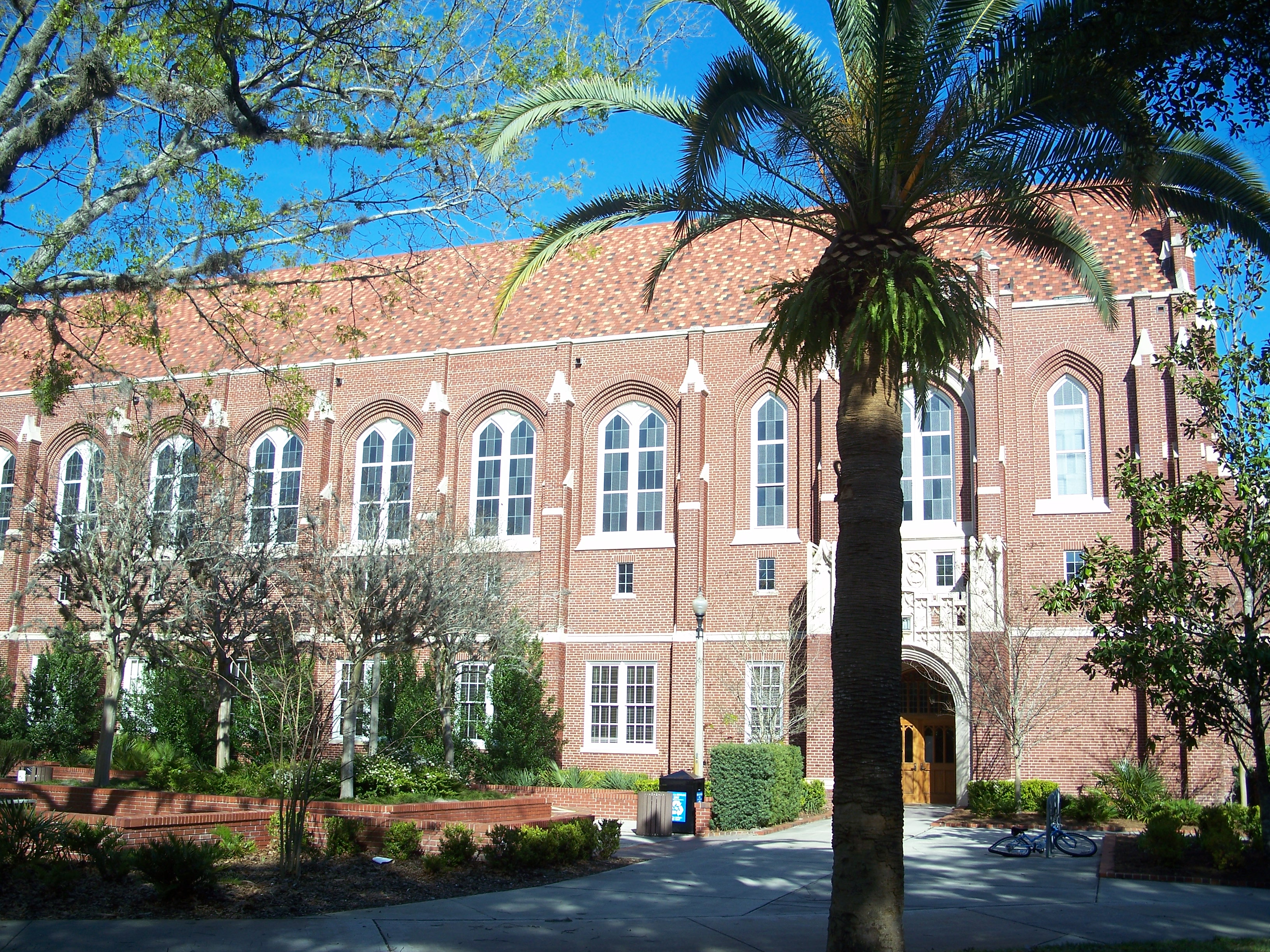 Library East, part of the University of Florida Campus Historic District